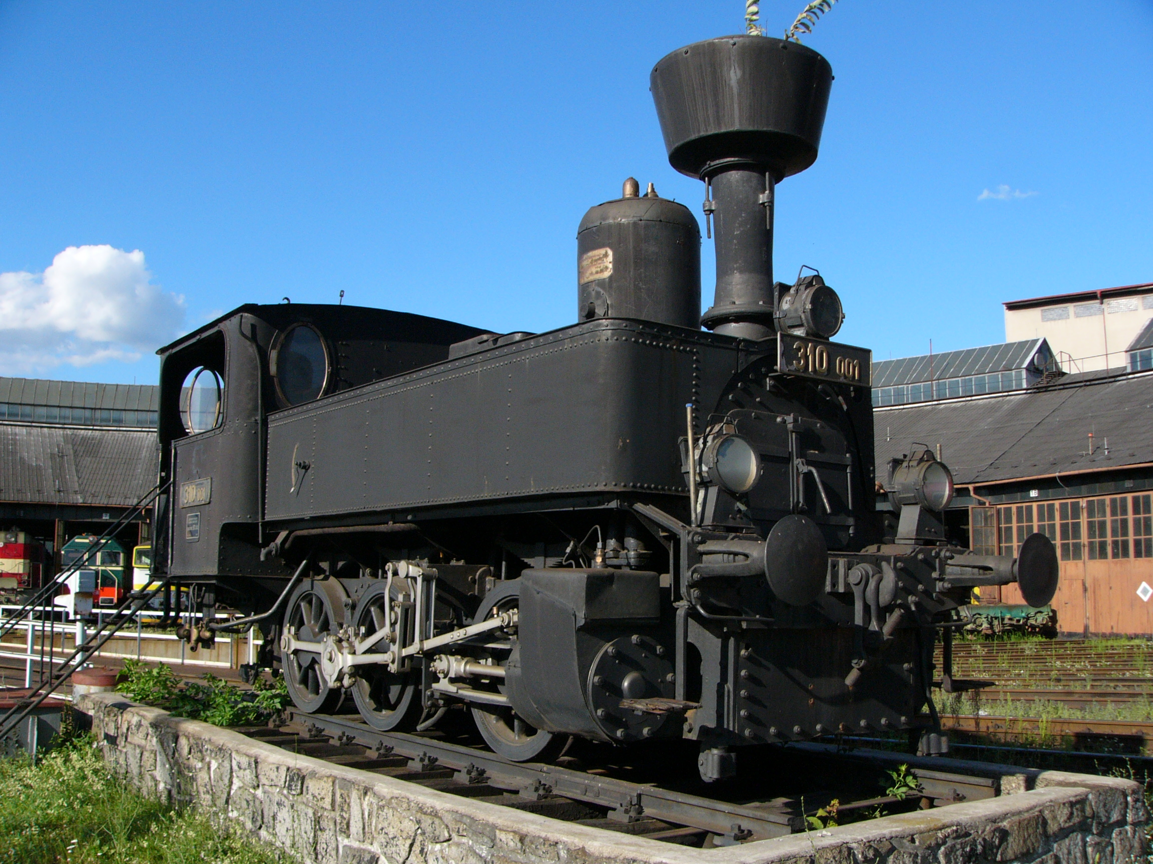 Steam locomotive 310.0 (310.001) in Olomouc (Czech Republic).